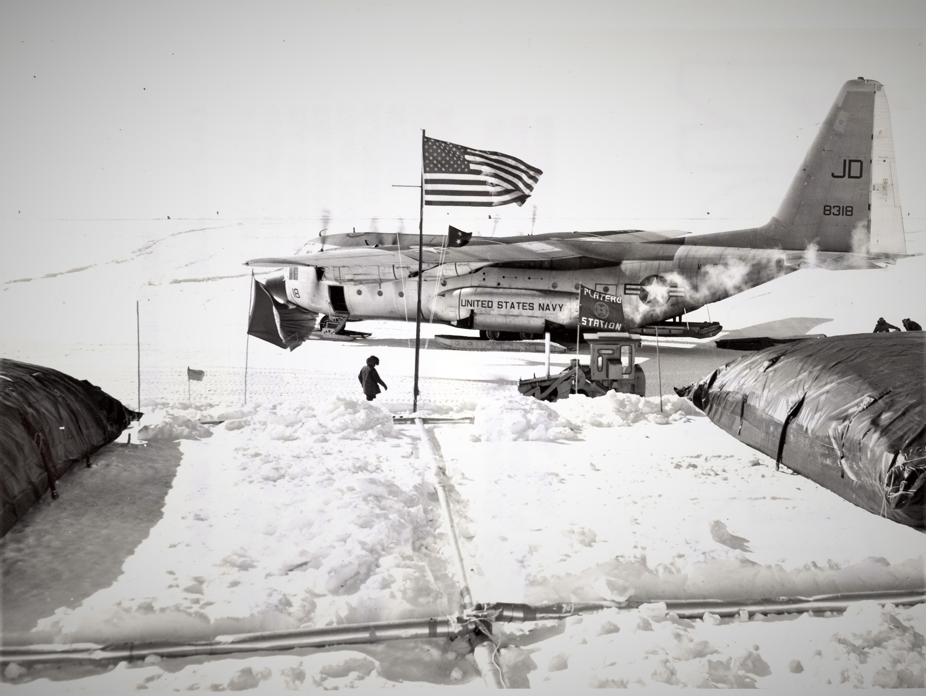 Plateau Station is an inactive American research and Queen Maud Land traverse support base on the central Antarctic Plateau